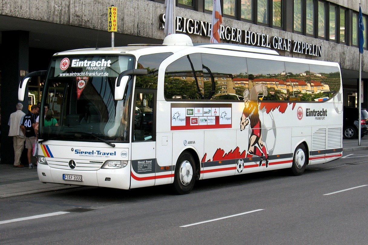 Mercedes-Benz O 580 Travego, team coach of Eintracht Frankfurt own photograph / all rights released